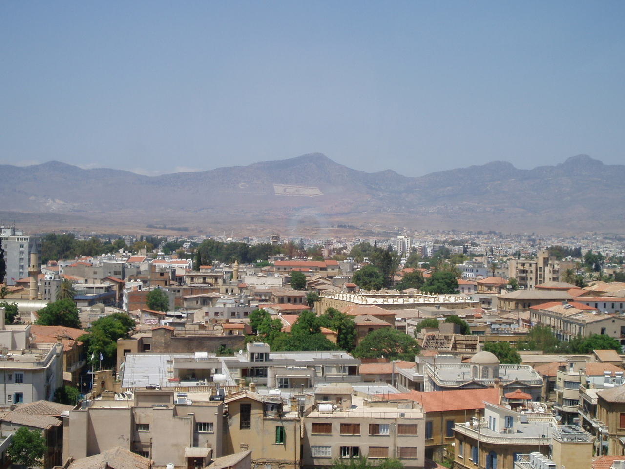 Northern half of Nicosia which is in the TRNC - picture taken from the Shackleton Tower